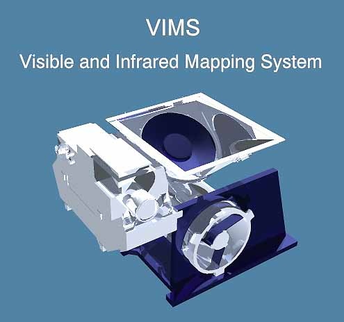 VIMS instrument of Cassini